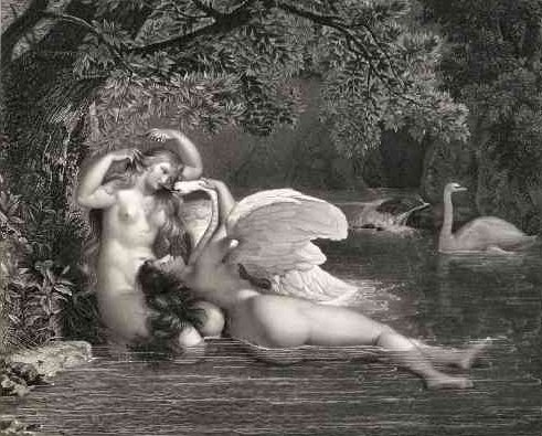 Naiads in a river